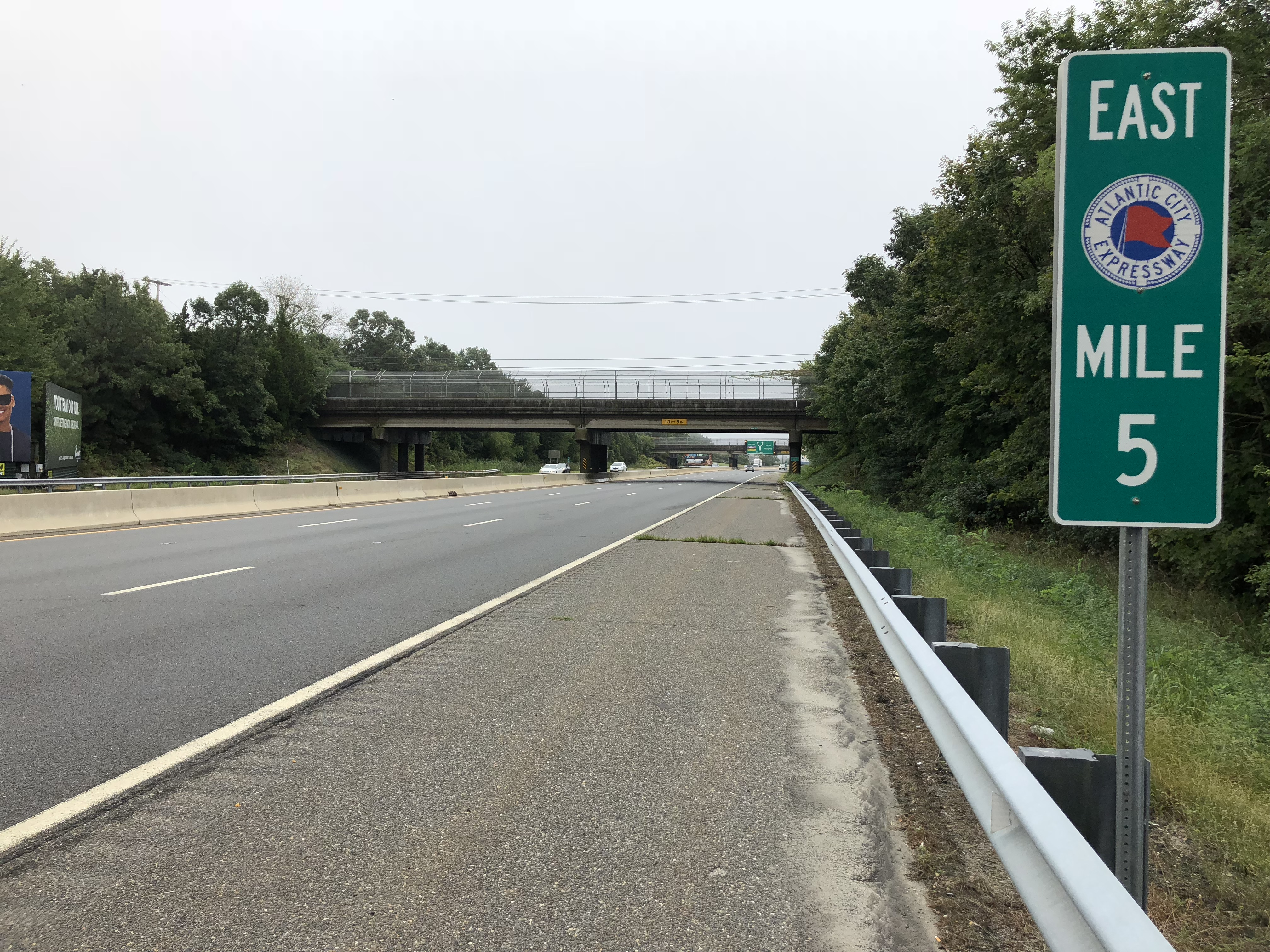 View east along New Jersey State Route 446 (Atlantic City Expressway) just east of Exit 5 in Pleasantville, Atlantic County, New Jersey